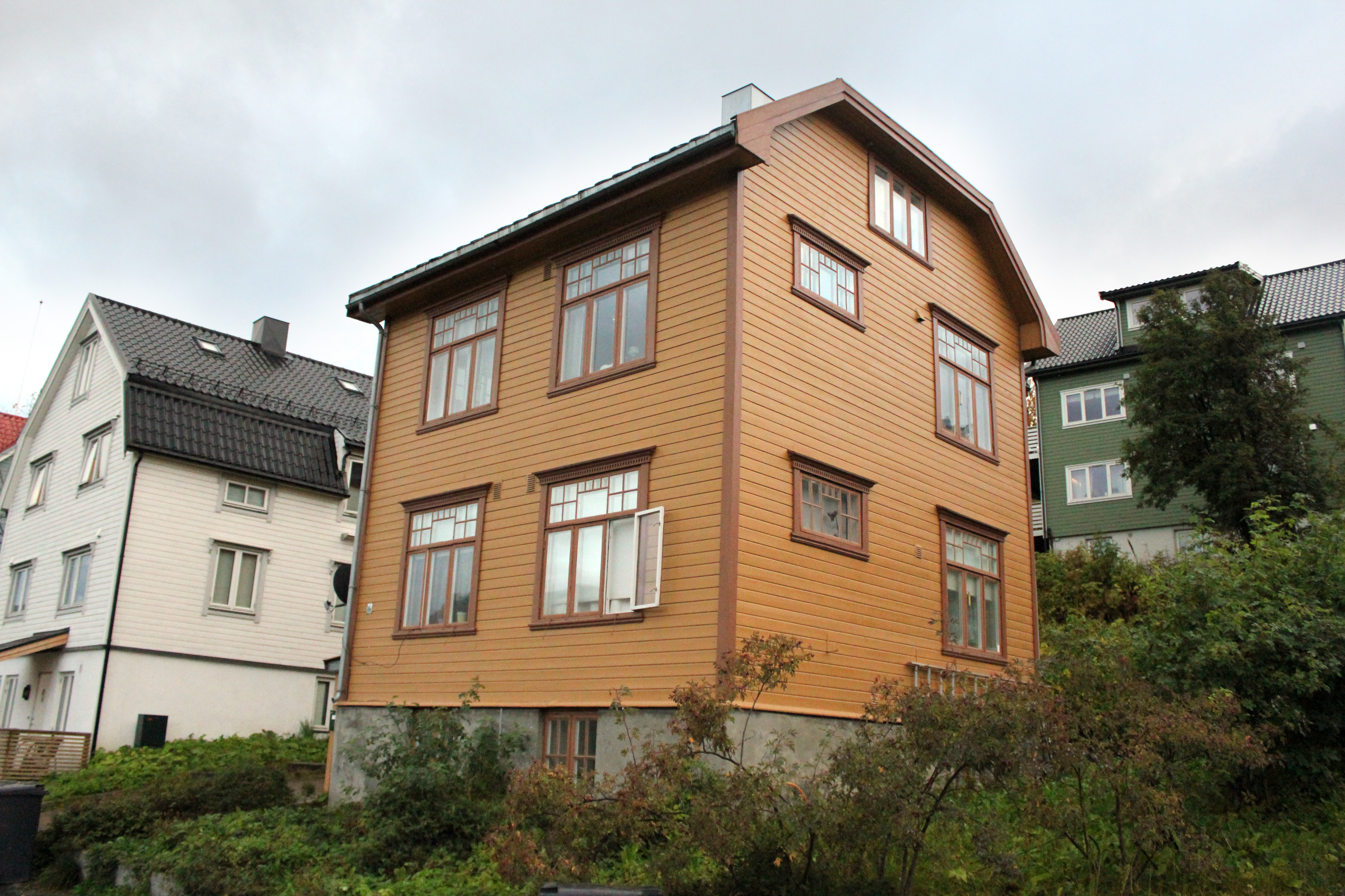 Fogd Dreyers street 16 in Tromsø, Norway. Rare example of Art Nouveau architechture in Northern NorwayNorsk bokmål: Fogd Dreyers gate 16 i Tromsø. Sjeldent eksempel på Jugend-stilartiektur.